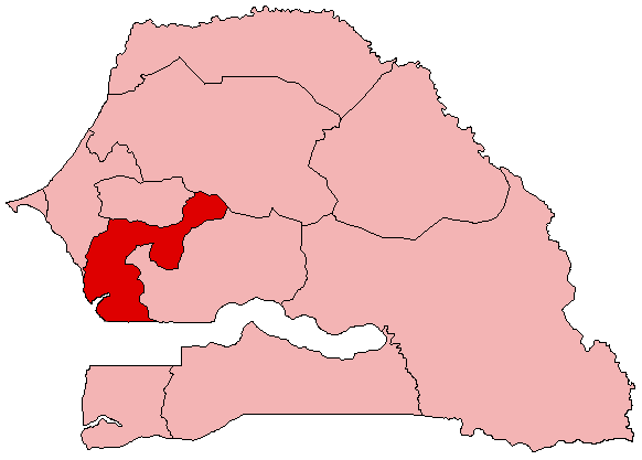 Map of Fatick region, Senegal.